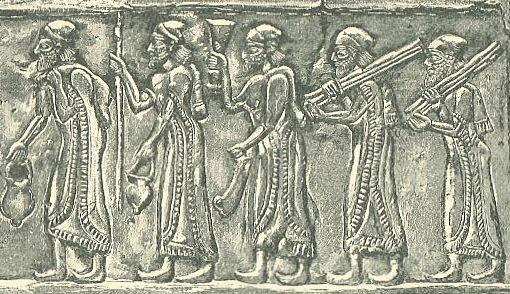 "Israelites of the Higher Class in the Time of Shalmaneser III." Tribute bearers of king Jehu from the Black Obelisk of Shalmaneser.